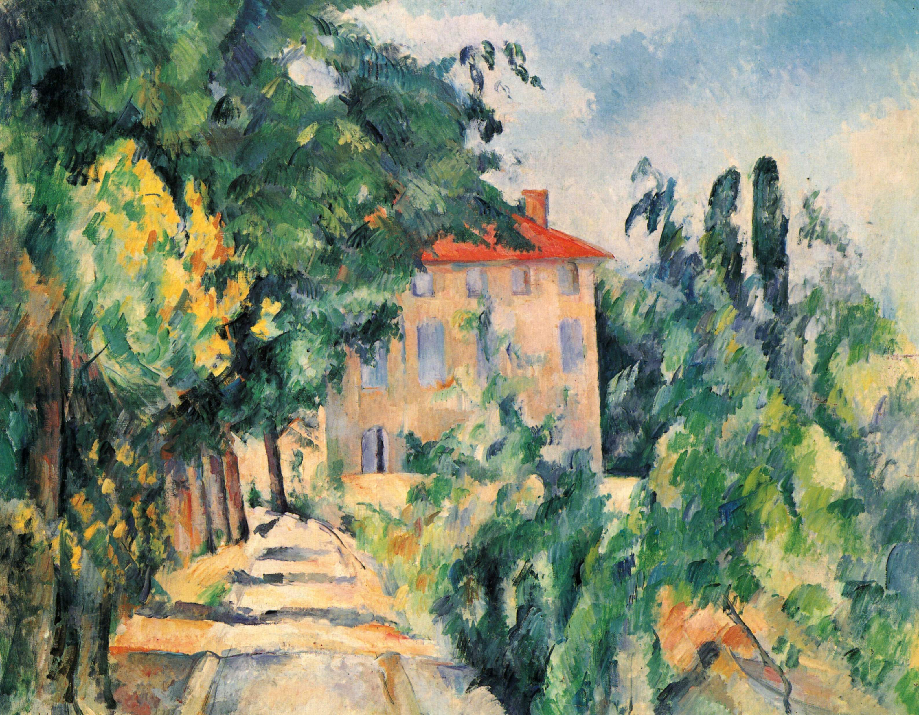 House with Red Roof